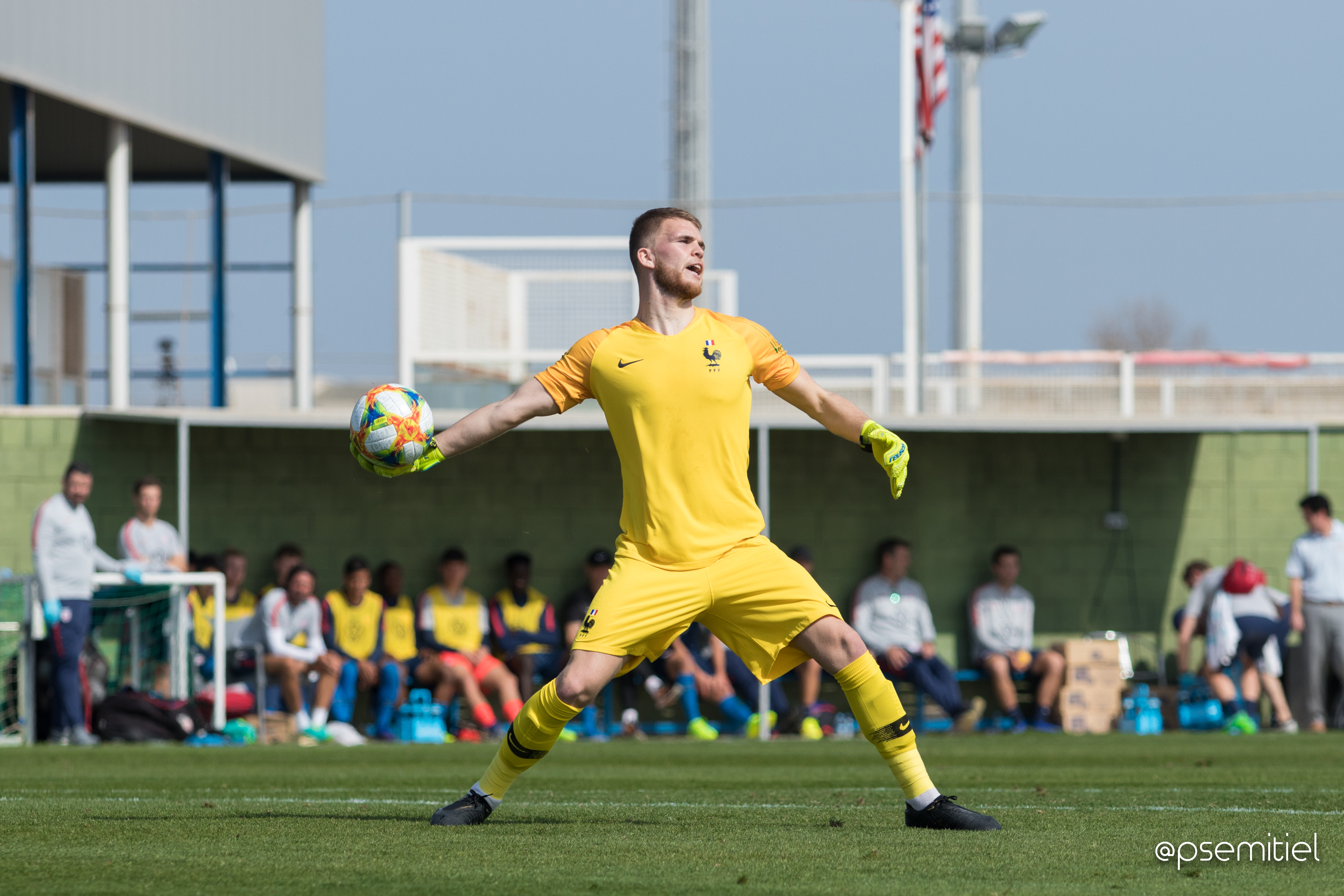 USA U20 v France U20, 22 March 2019